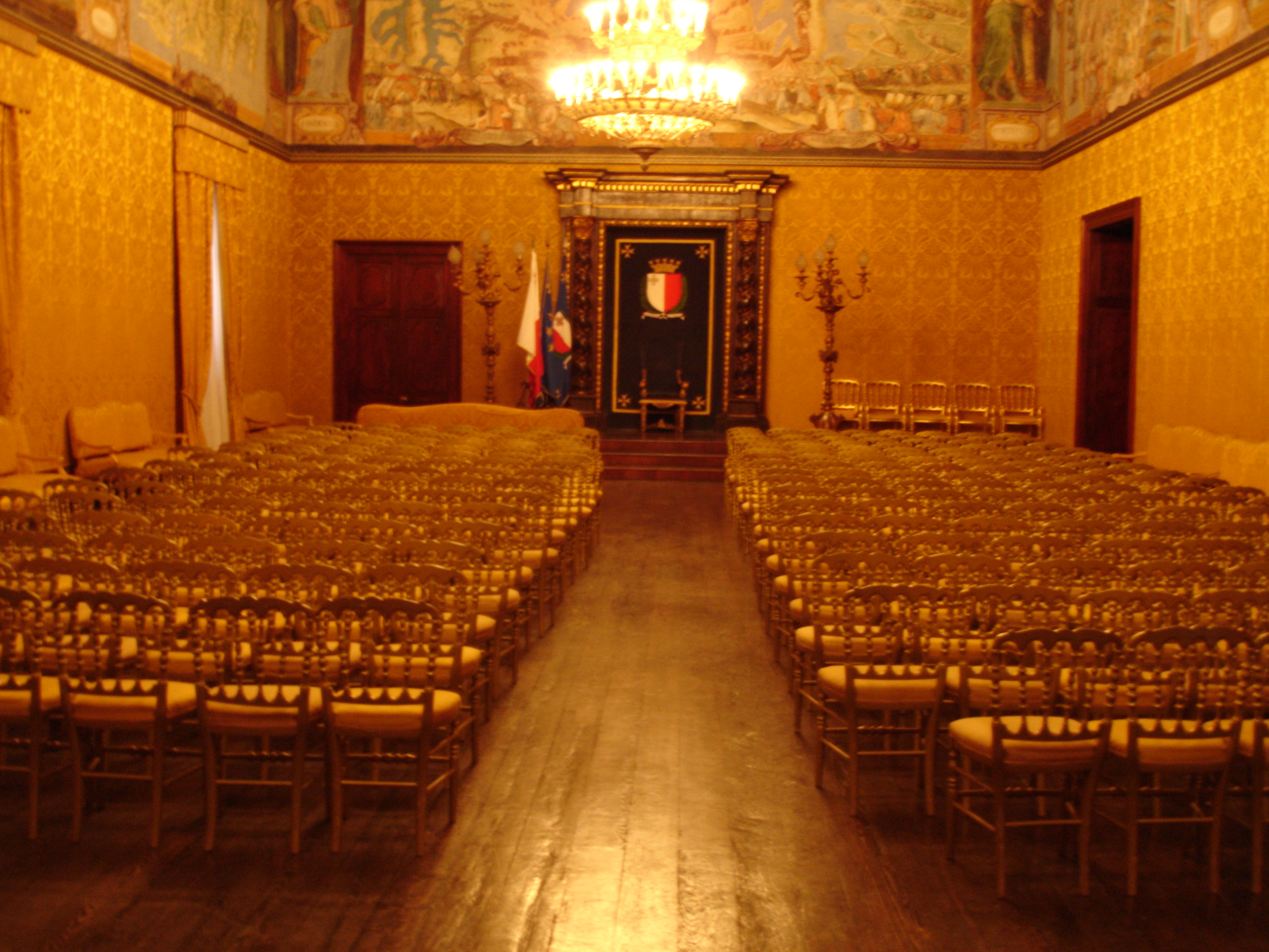 Hall from the Castle in Valletta (Malta)